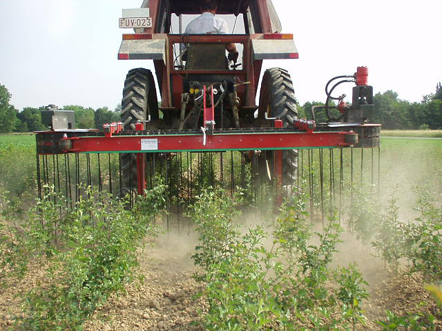 A picture of a self-designed tool for mechanical weed control: the diagonal weeder (a special form of a "tine weeder" or "weeder/comb harrow"). This weeder can be mounted on a tractor and allows diagonal weeding. It is useful in tree nurseries, where the 70cm long teeth of the machine can destroy weeds easily with a speed of 1ha per hour. The concept has been invented by the Belgian Peter Van Geem and worked out in practice by Vanhoucke Machinebouw. More information can be found at following webpage: BoomkwekerijenVanGeem.be